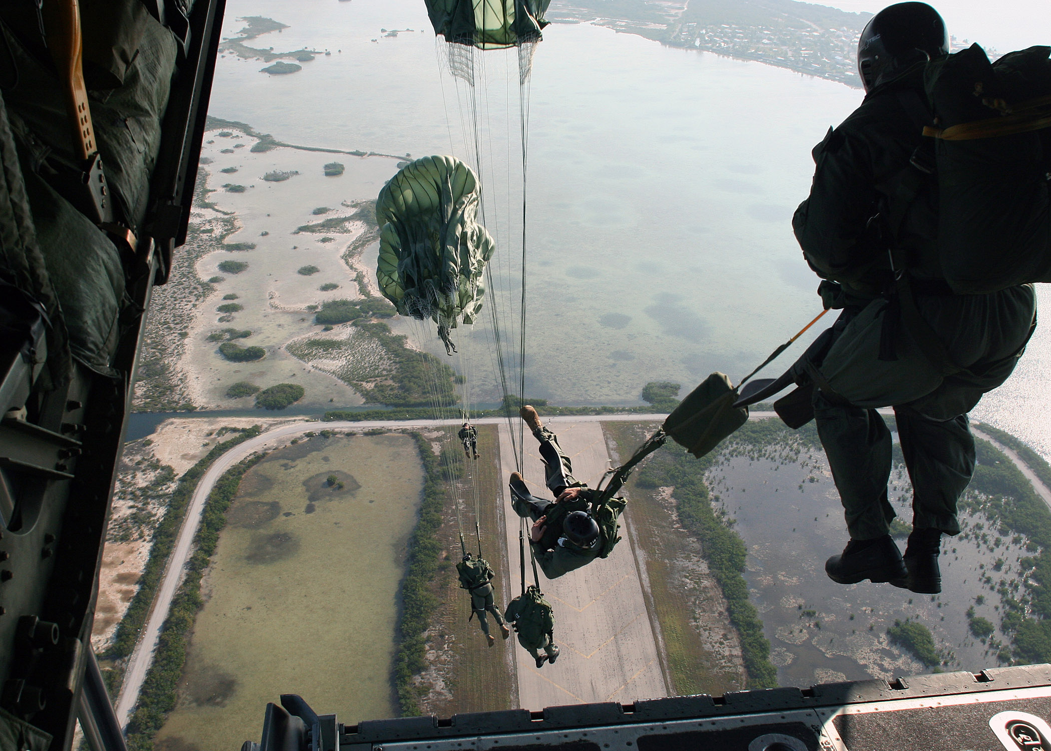 U.S. Navy Special Warfare Combatant-craft Crewmen assigned to Special Boat Team 20 jump from an Air Force C-130 Hercules aircraft during a static-line parachute jump over Key West Fla., on March 3, 2008.